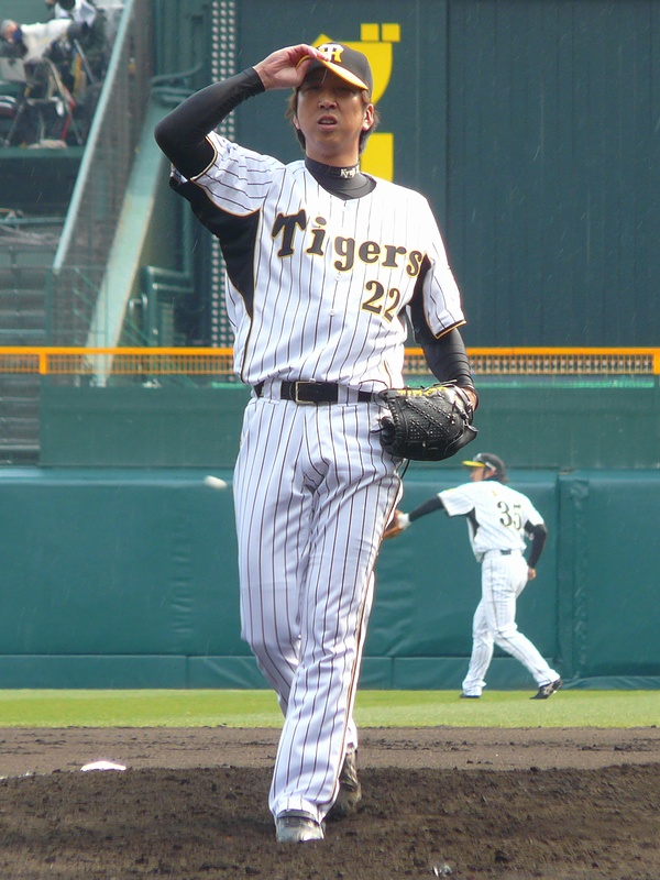 Kyuji Fujikawa, pitcher of the Hanshin Tigers, at Hanshin Koshien Stadium.